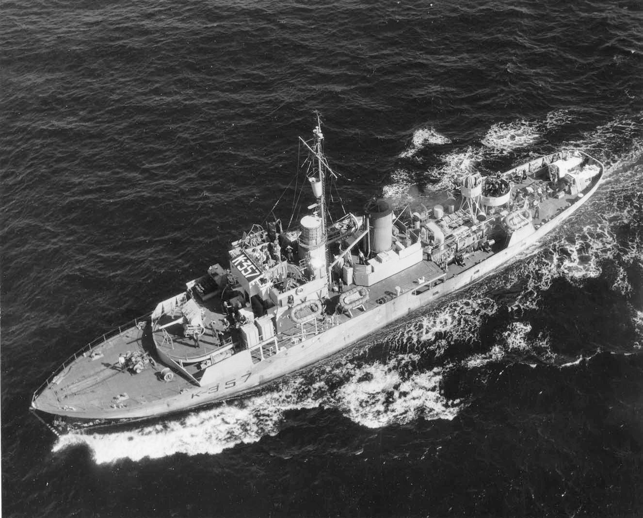 Royal Canadian Navy Corvette HMCS Riviere du Loup (K 357) of the eastern Seaboard on November 1, 1944. Photographd by US Navy Blimp